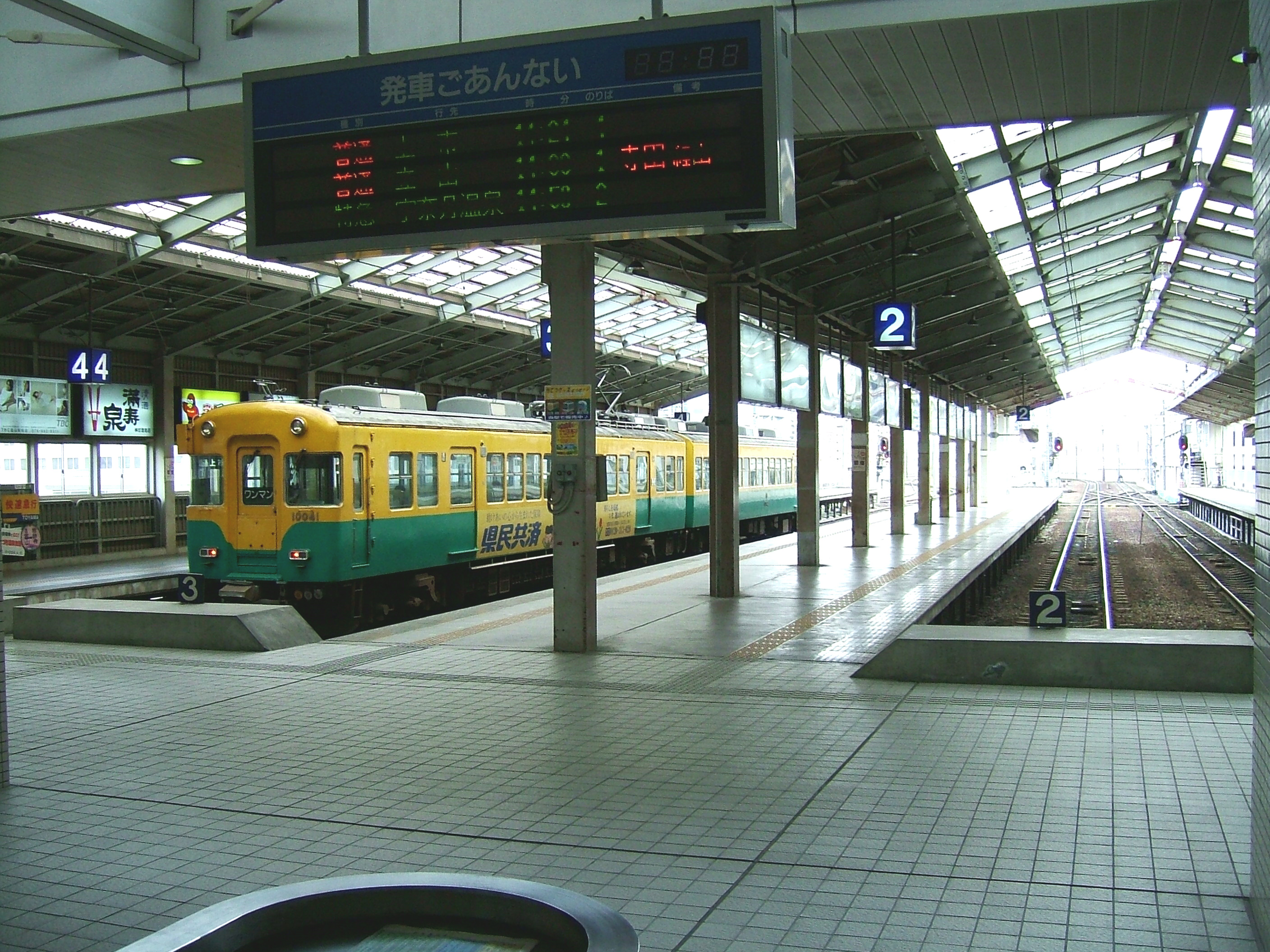 The platforms of Dentetsu Toyama Station